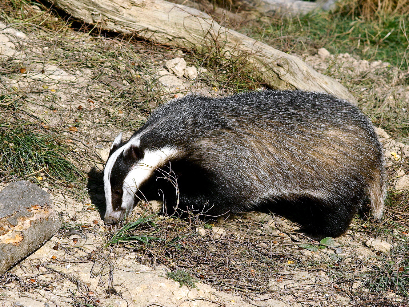 Seen at the British Wildlife Centre, Newchapel, Surrey. 'Honey', the badger, at the afternoon Keeper's talk.